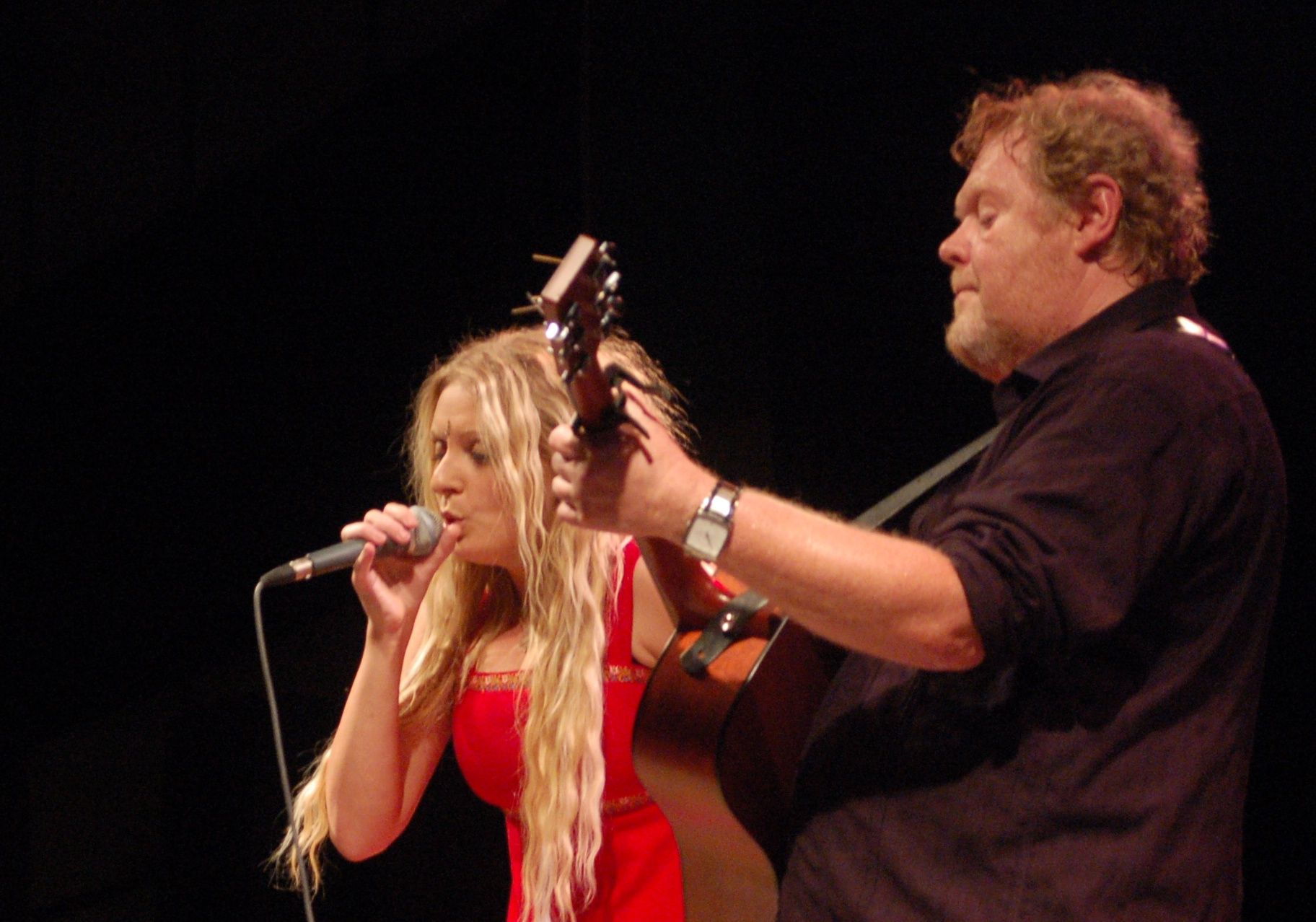 Eivør Pálsdóttir and Sebastian (Danish musician) on stage in Tønder, 25 August 2006